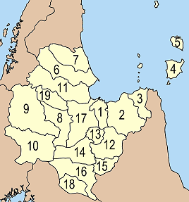 Map of the province Surat Thani with the districts (Amphoe) numbered. Mueang Surat Thani (อำเภอเมืองสุราษฎร์ธานี) Kanchanadit (อำเภอกาญจนดิษฐ์) Don Sak (อำเภอดอนสัก) Ko Samui (อำเภอเกาะสมุย) Ko Pha Ngan (อำเภอเกาะพะงัน) Chaiya (อำเภอไชยา) Tha Chana (อำเภอท่าชนะ) Khiri Ratthananikhom (อำเภอคีรีรัฐนิคม) Ban Ta Khun (อำเภอบ้านตาขุน) Phanom (อำเภอพนม) Tha Chang (อำเภอท่าฉาง) Ban Na San (อำเภอบ้านนาสาร) Ban Na Doem (อำเภอบ้านนาเดิม) Khian Sa (อำเภอเคียนซา) Wiang Sa (อำเภอเวียงสระ) Phrasaeng (อำเภอพระแสง) Phunphin (อำเภอพุนพิน) Chai Buri (อำเภอชัยบุรี) Wiphawadi (sub-district) (กิ่งอำเภอวิภาวดี)